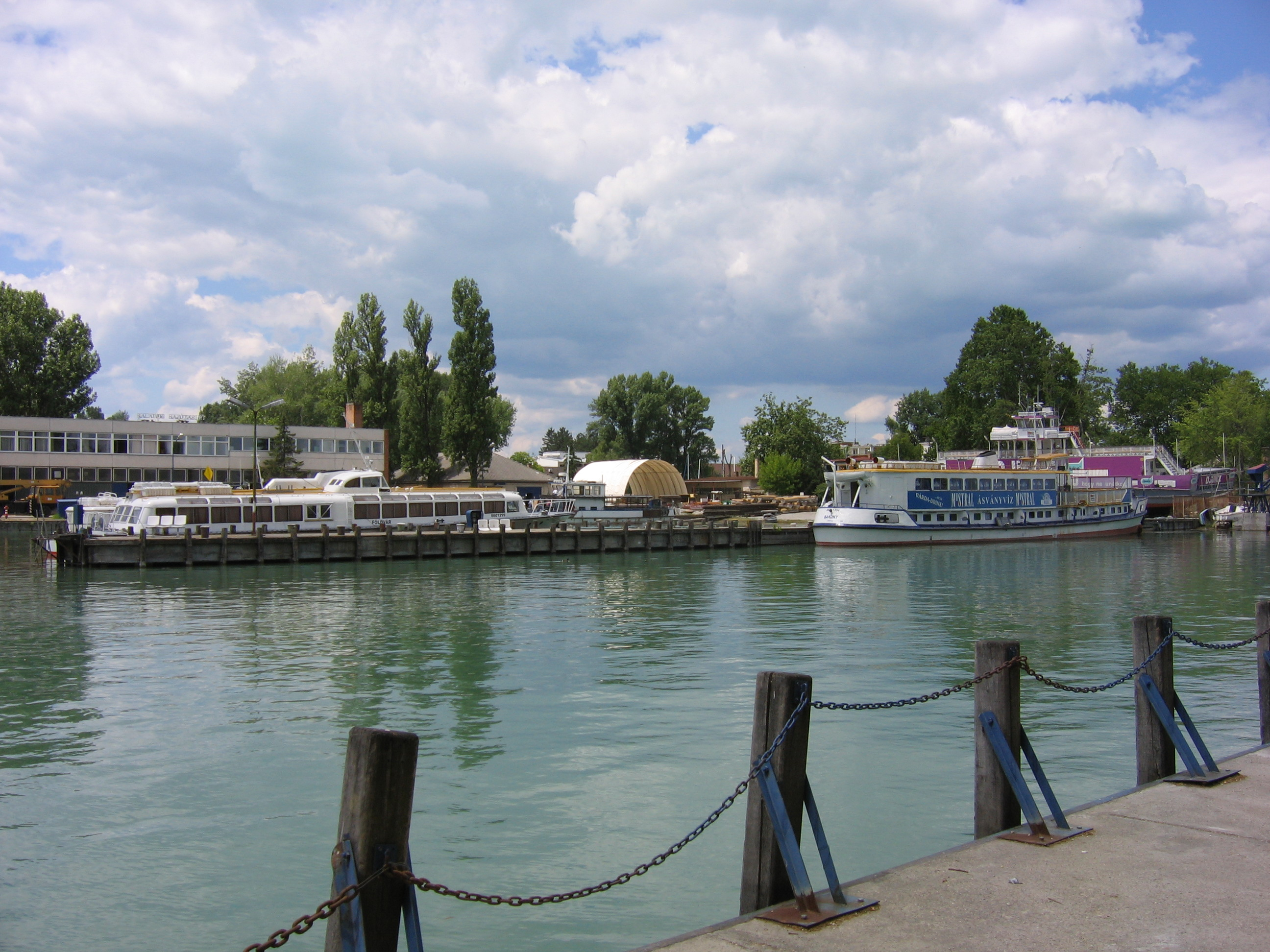 Földvár (ship, 1959), exLEÁNYFALU. 2008-ben árverésen értékesítve. 2009 március 9.-én elhagyta a Balatont. Csehországba került, a Vranovi víztározón működött, 2012. június 7-én a hajnali órákban ismeretlen tettesek a vranovi kikötőben felrobbantották. 301 típusú vízibusz, ENI szám: 860 1299. A későbbi 'A Boss (ship, 1921)', exBakony, ex Ercsi. ENI szám: 860 1304. Épült: 1921, Ganz és Tsa. Danubius Gép-, Wagon- és Hajógyár RT., Budapest/Újpest, HU, #1352- Port of Siófok, Lake Balaton, Hungary